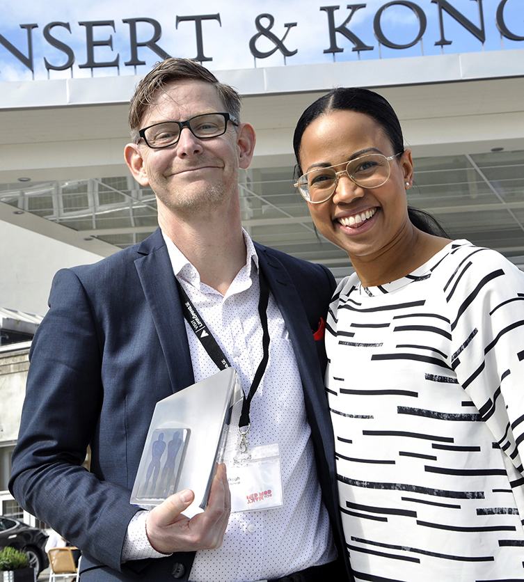 Peter Skogh och Tekniska museet mottar pris för Årets museum, kulturminister Alice Bah Kuhnke (MP).